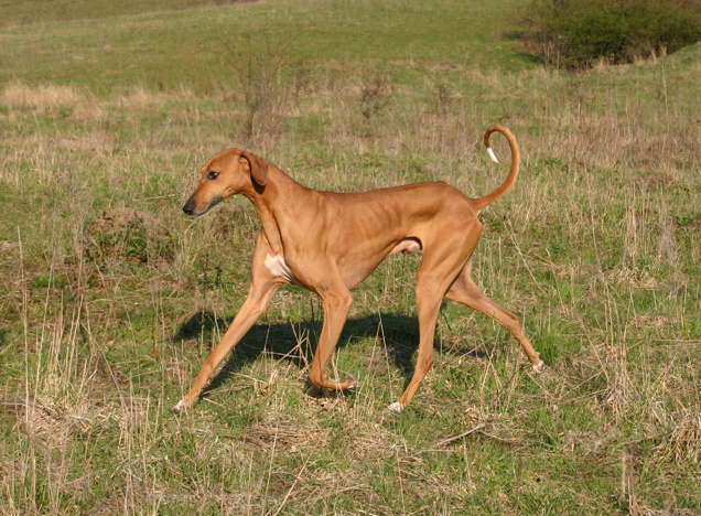 Breed: Azawakh, Name: Huilaco's Jehanarh Khan, picture taken in 2005 in Targu-Mures, Romania